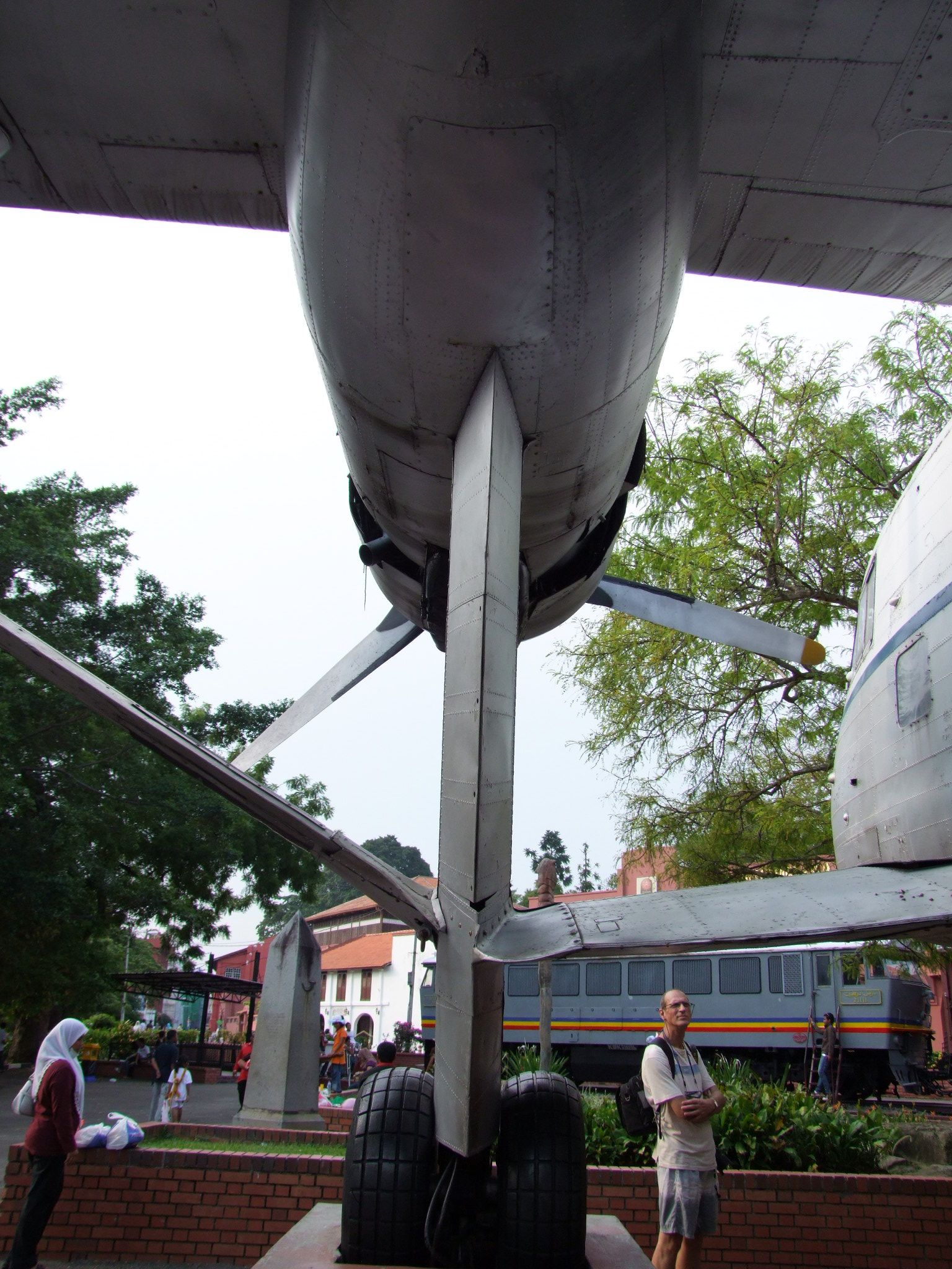 Twin Pioneer CC.Mk 1 Undercarriage Royal Malaysian Air Force